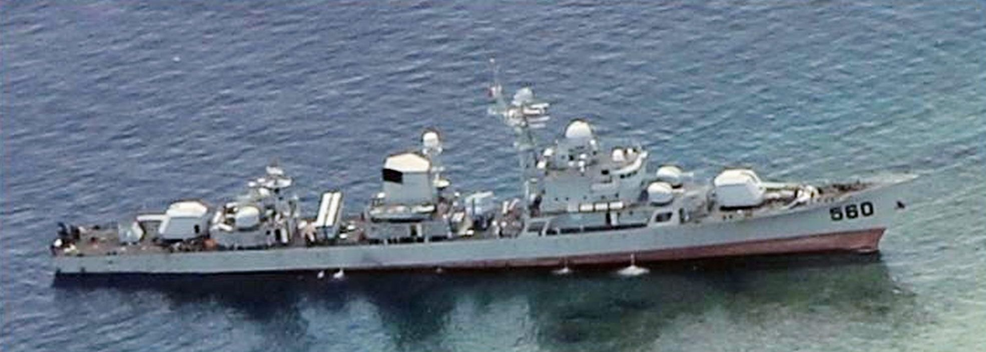 The Chinese frigate, Dongguan, was temporarily grounded near Half Moon Shoal.